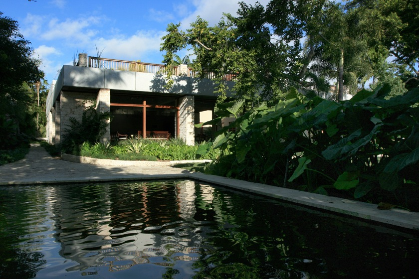 View of Schokman Education Center taken recently after completion.